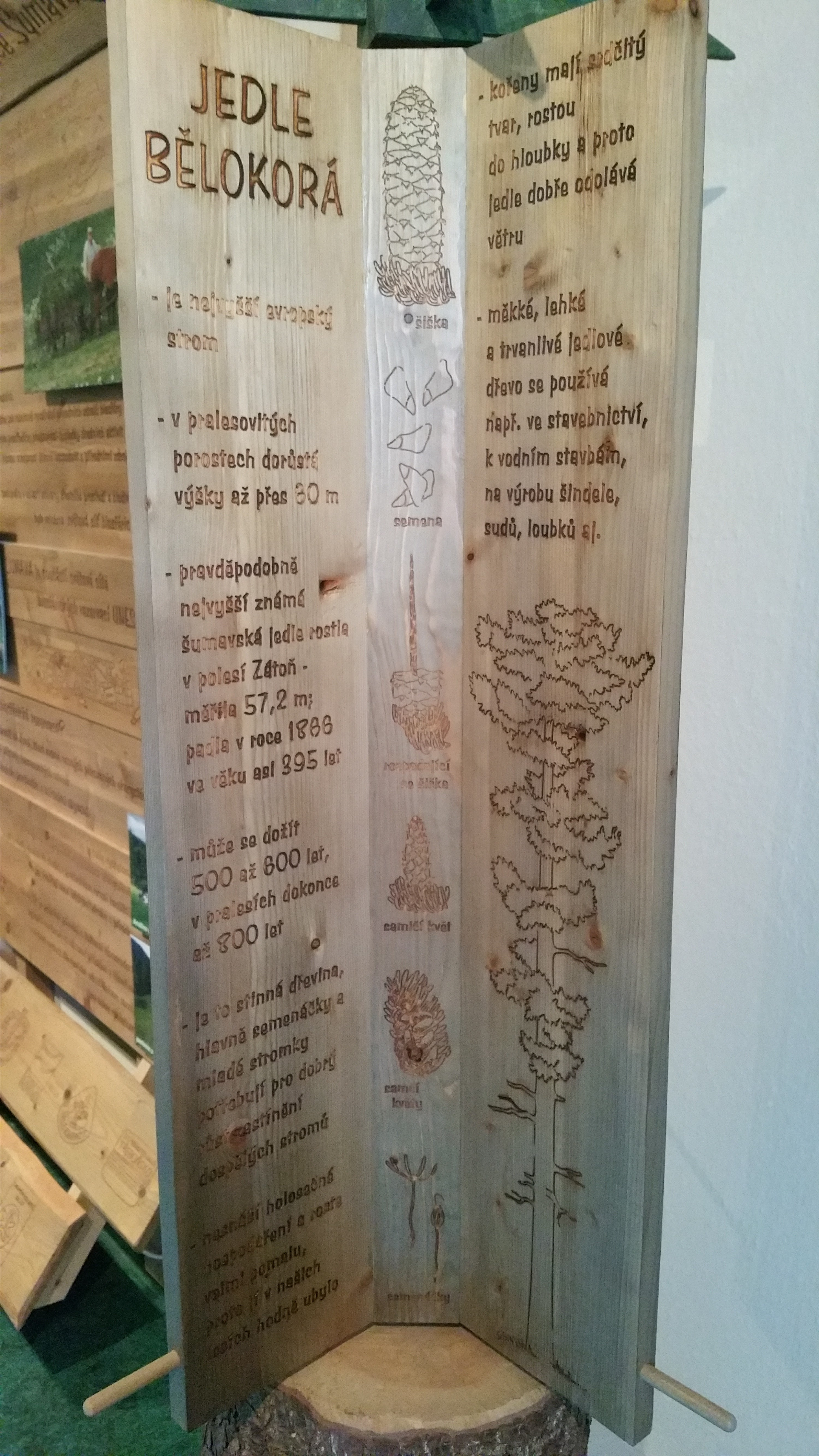 Museum of Vimperk - Šumava nature